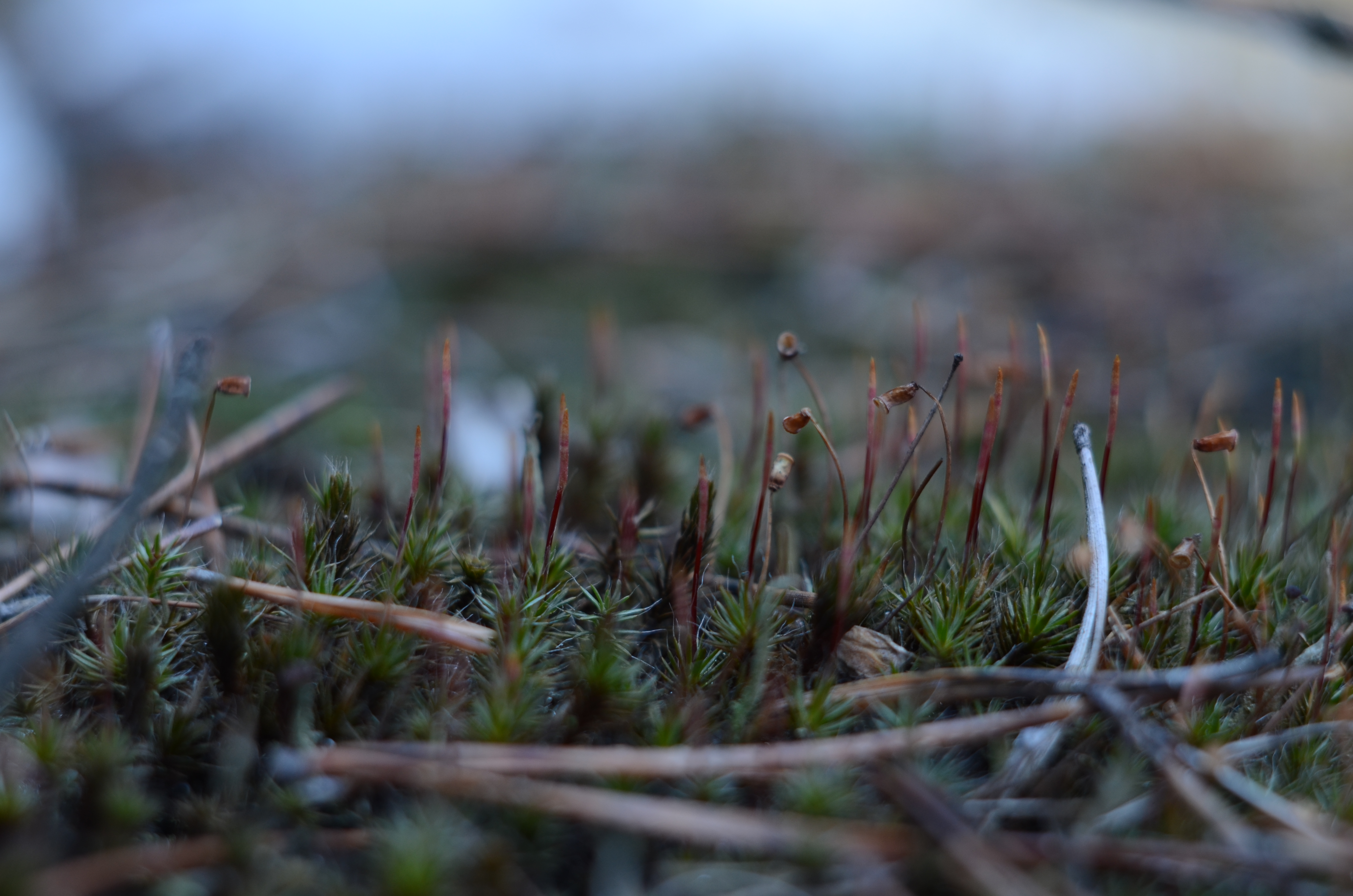 Pictured: Polytrichum piliferum Hedw.; Class Musci, Subclass Bryidae, Family Polytrichaceae, Genus Polytrichum. Stem length is about 0,8 inch.